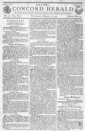 Hough's Concord Herald; Date: 03-02-1791